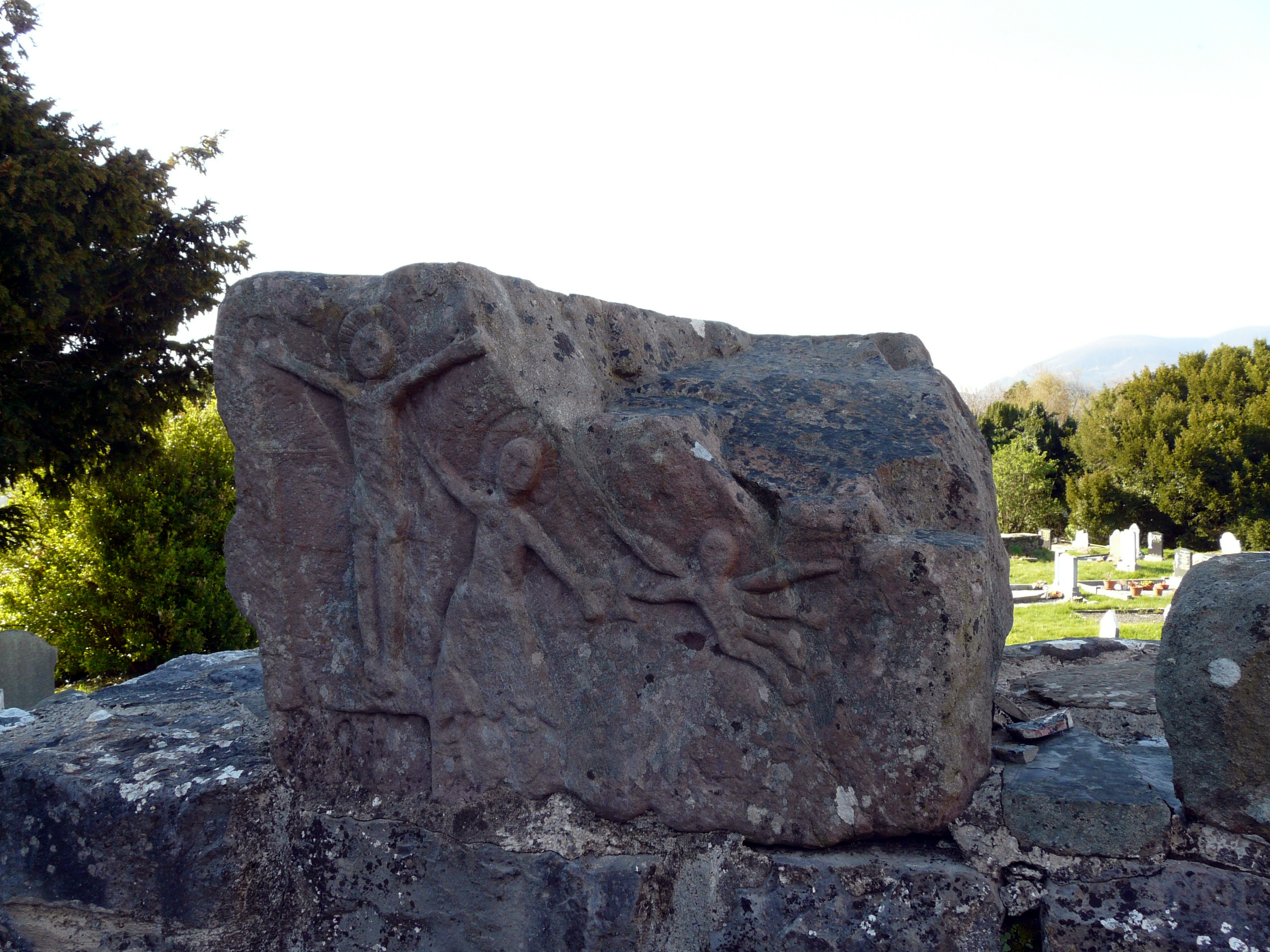 Seventh century sculpture fragment in Aghadoe cathedral